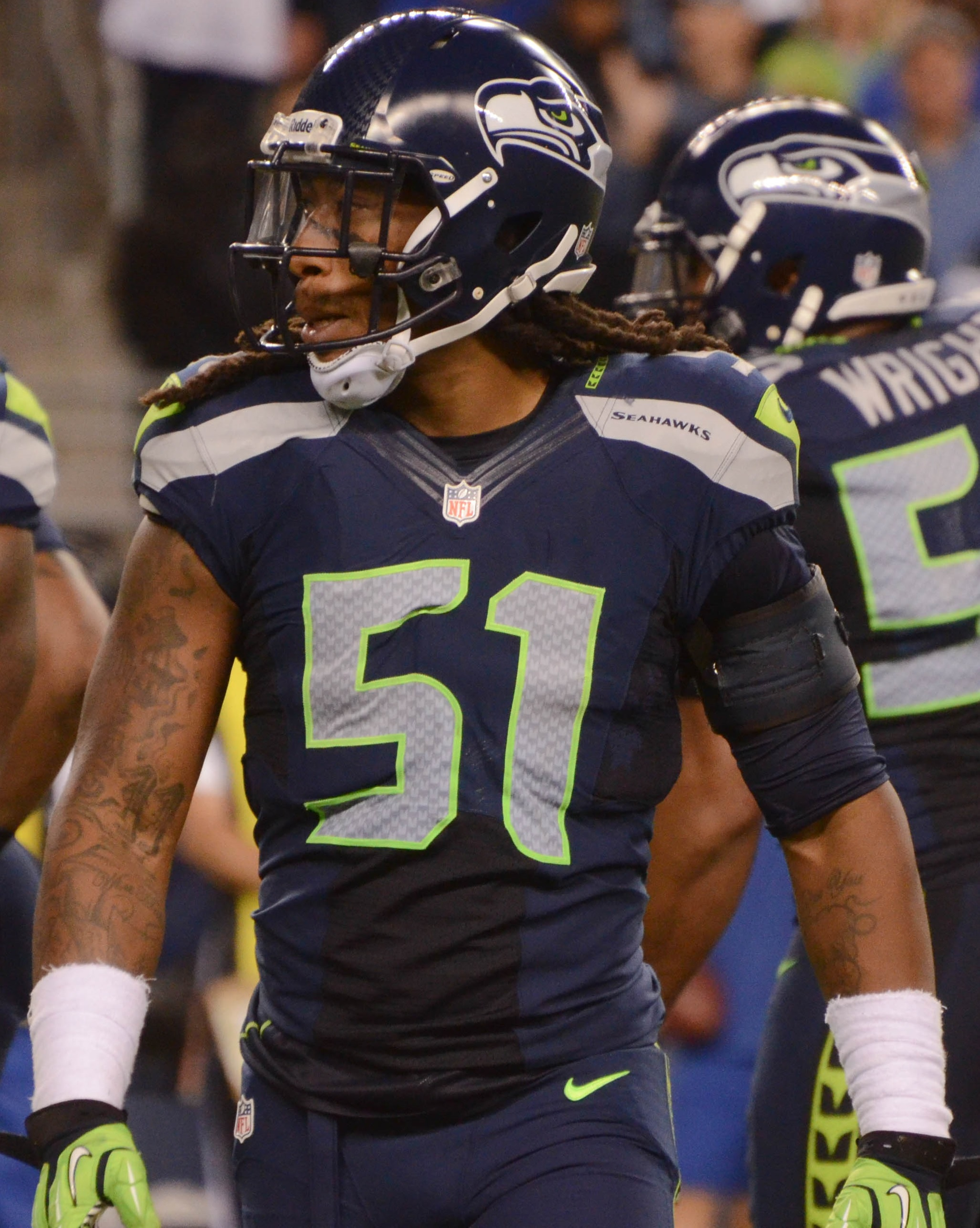 Bruce Irvin, Seattle Seahawks, in 2012.